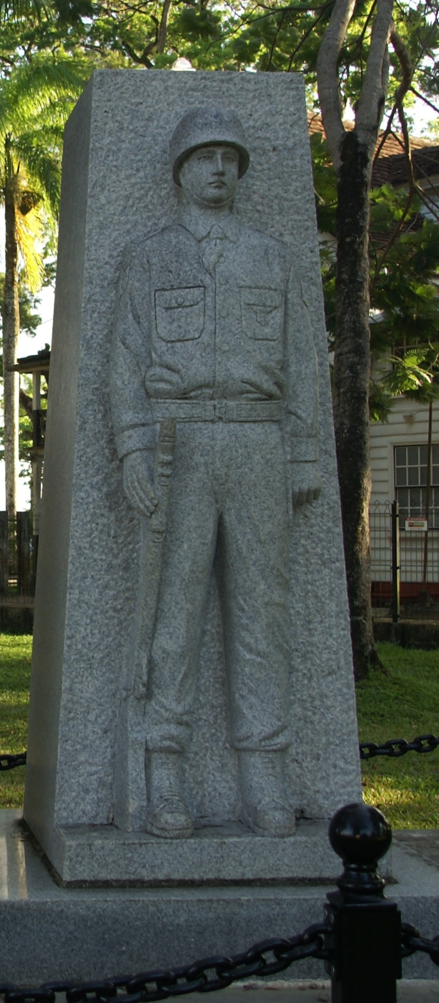 TRIS-monument, near Fort Zeelandia, Paramaribo, Surinam. Detail.